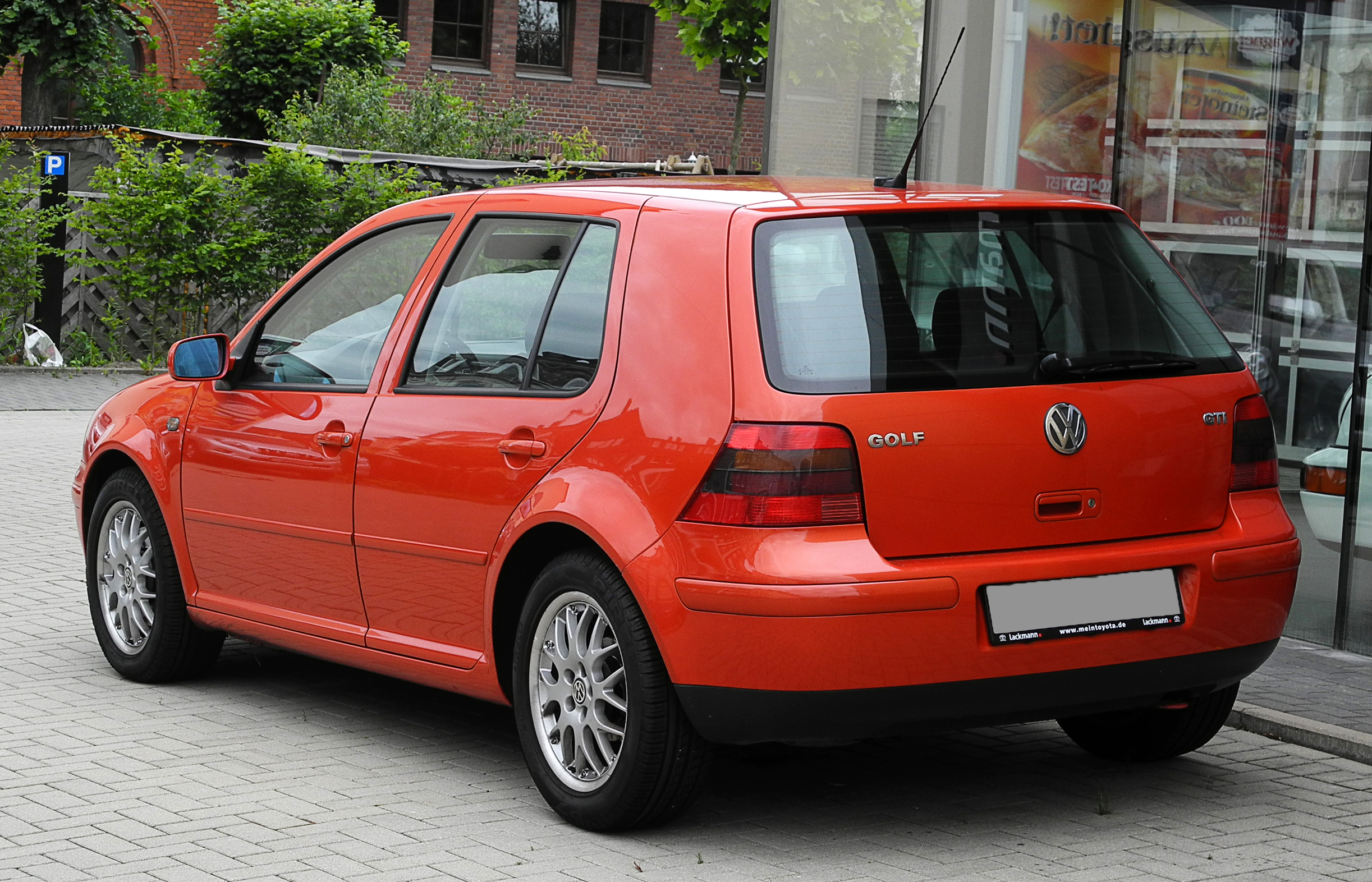 VW Golf GTI (IV)